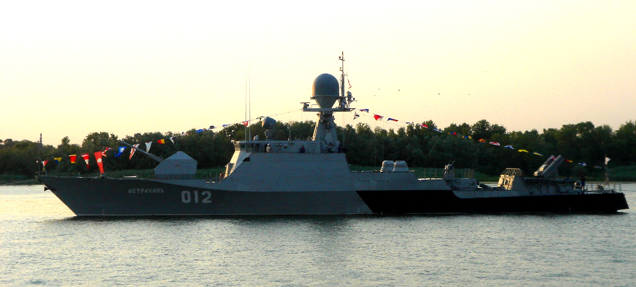 Buyan-class corvette Astrakhan from the Russian Navy's Caspian Flotilla